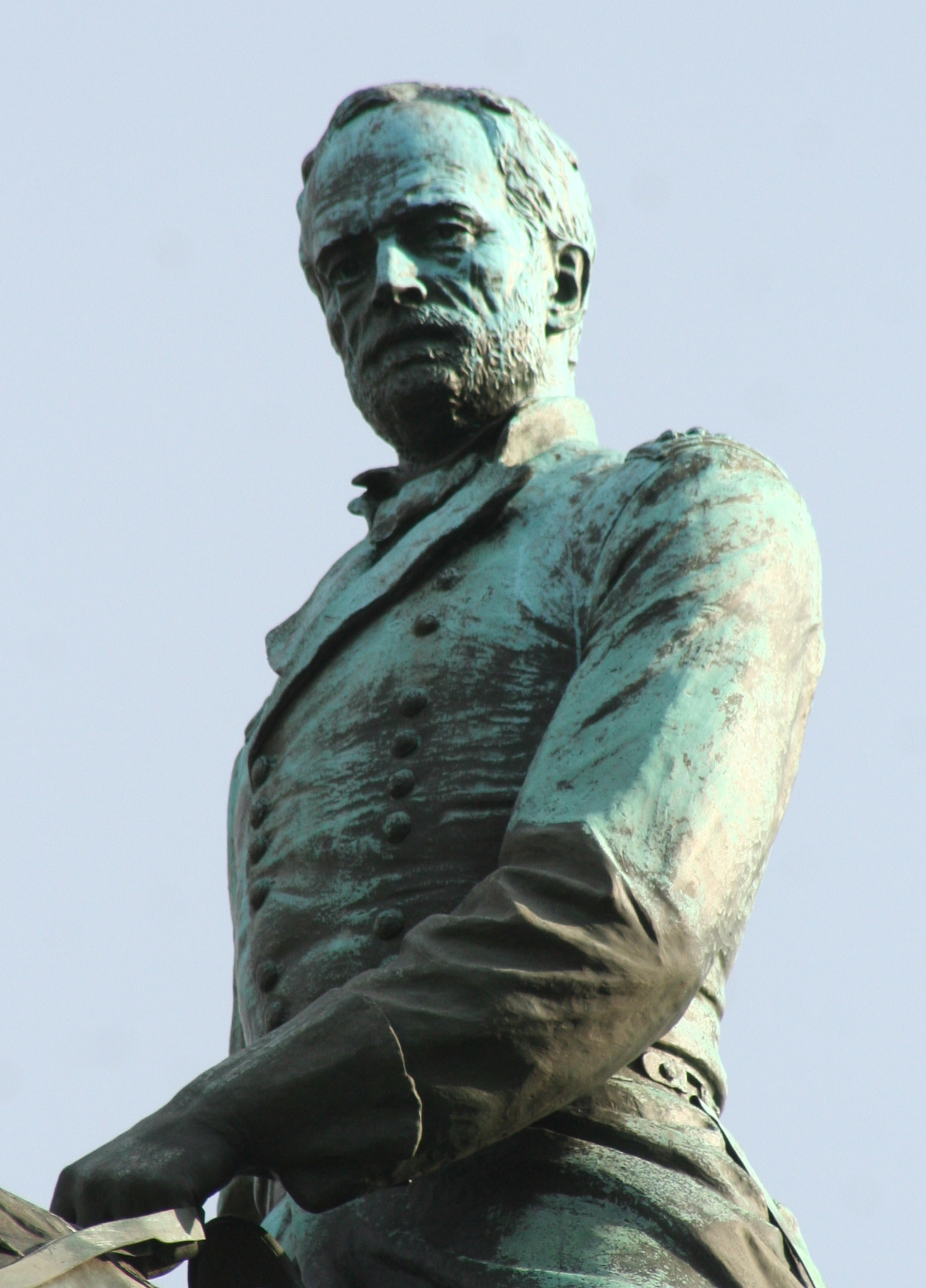 William T. Sherman monument on 15th Street at Pennsylvania Avenue NW in Washington, DC. Sculpted by Carl Rohl-Smith unveiled in 1903.